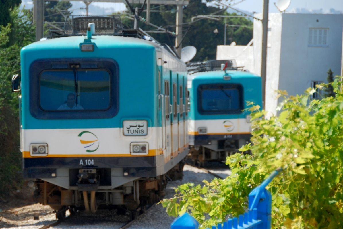 TGM trains crossing close to La Corniche station (July 2010)